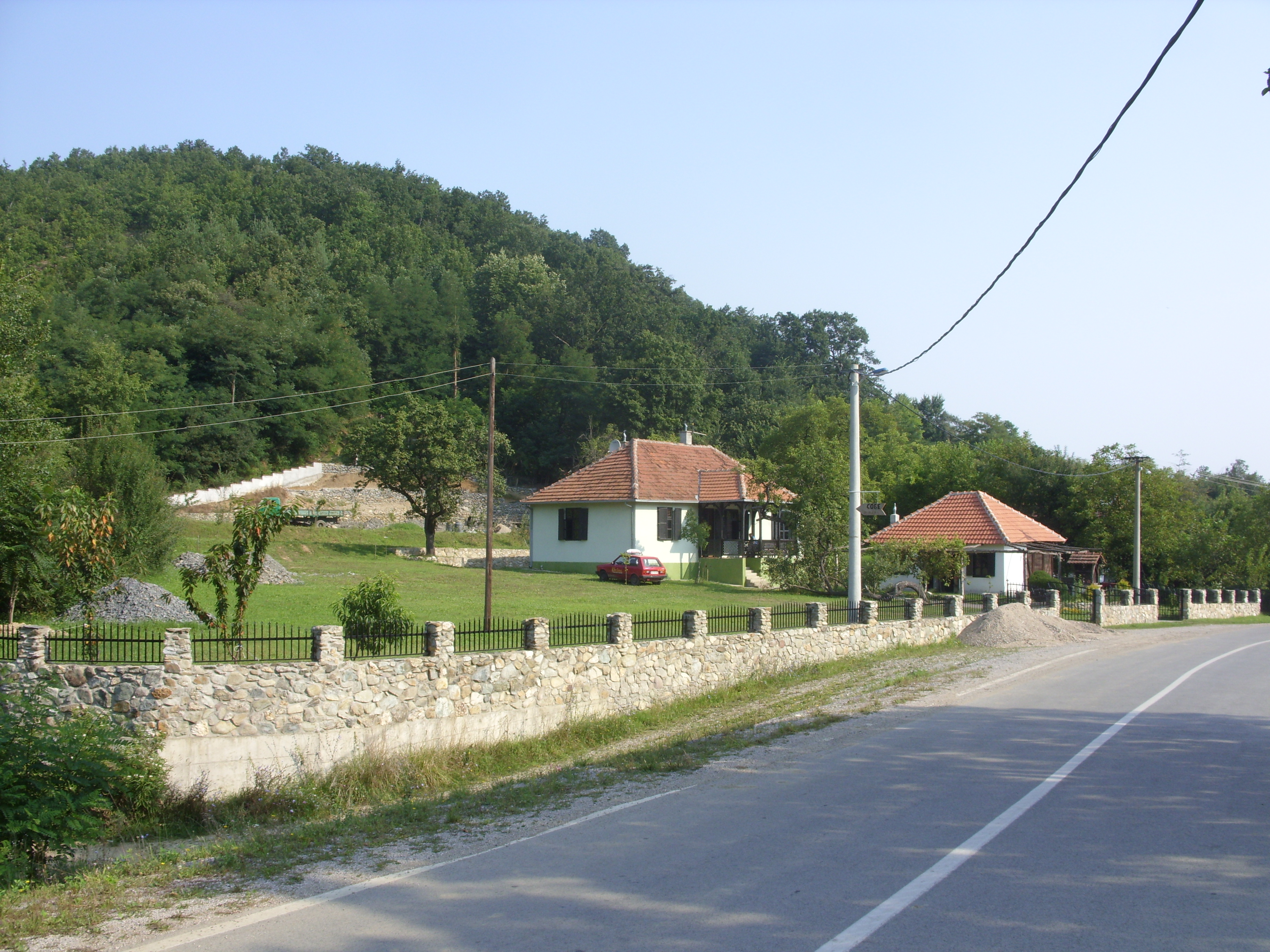 Ribarska Banja spa, municipality of Krusevac, Serbia